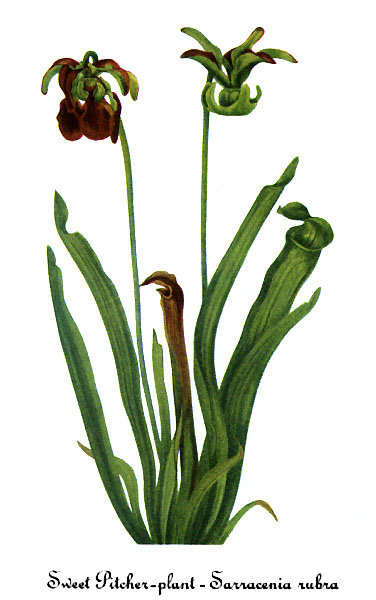 Watercolor painting of Sarracenia_rubra.